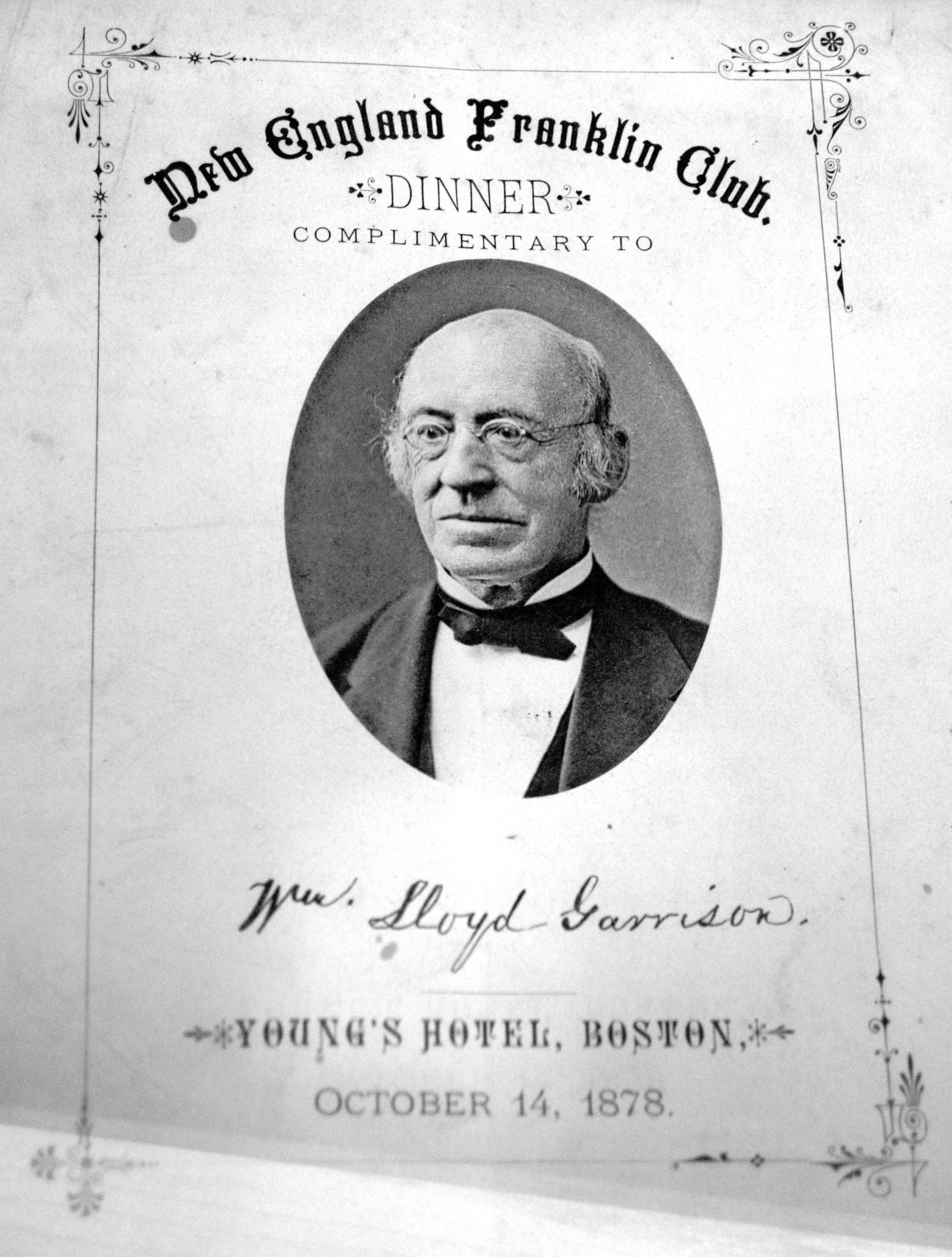 William Lloyd Garrison dinner bill of fare, Franklin Club, Young's Hotel, Boston, October 14, 1878.